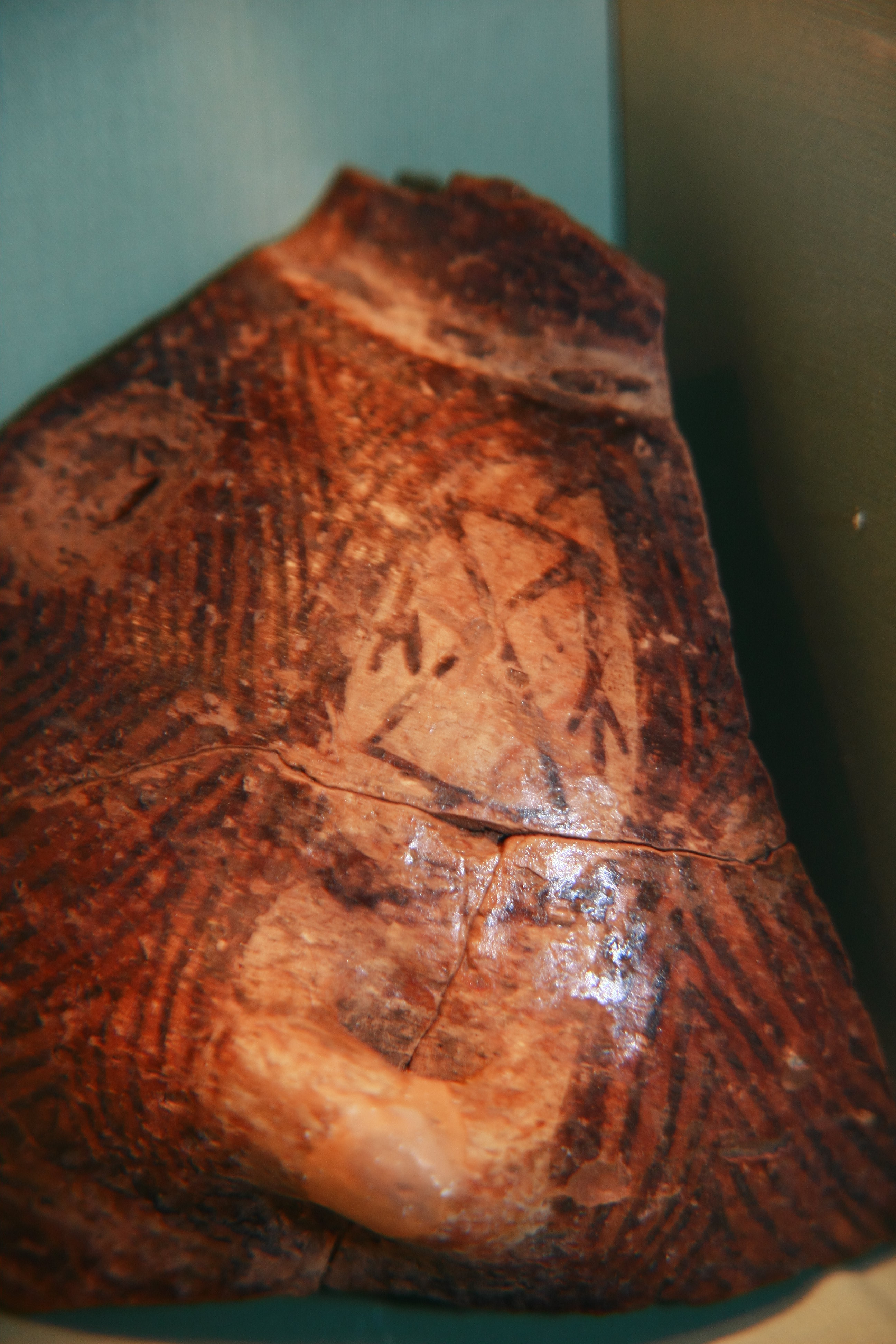 Antropomorhic Mother Goddess representation on Cucuteny Culture Pottery Piatra Neamt Museum